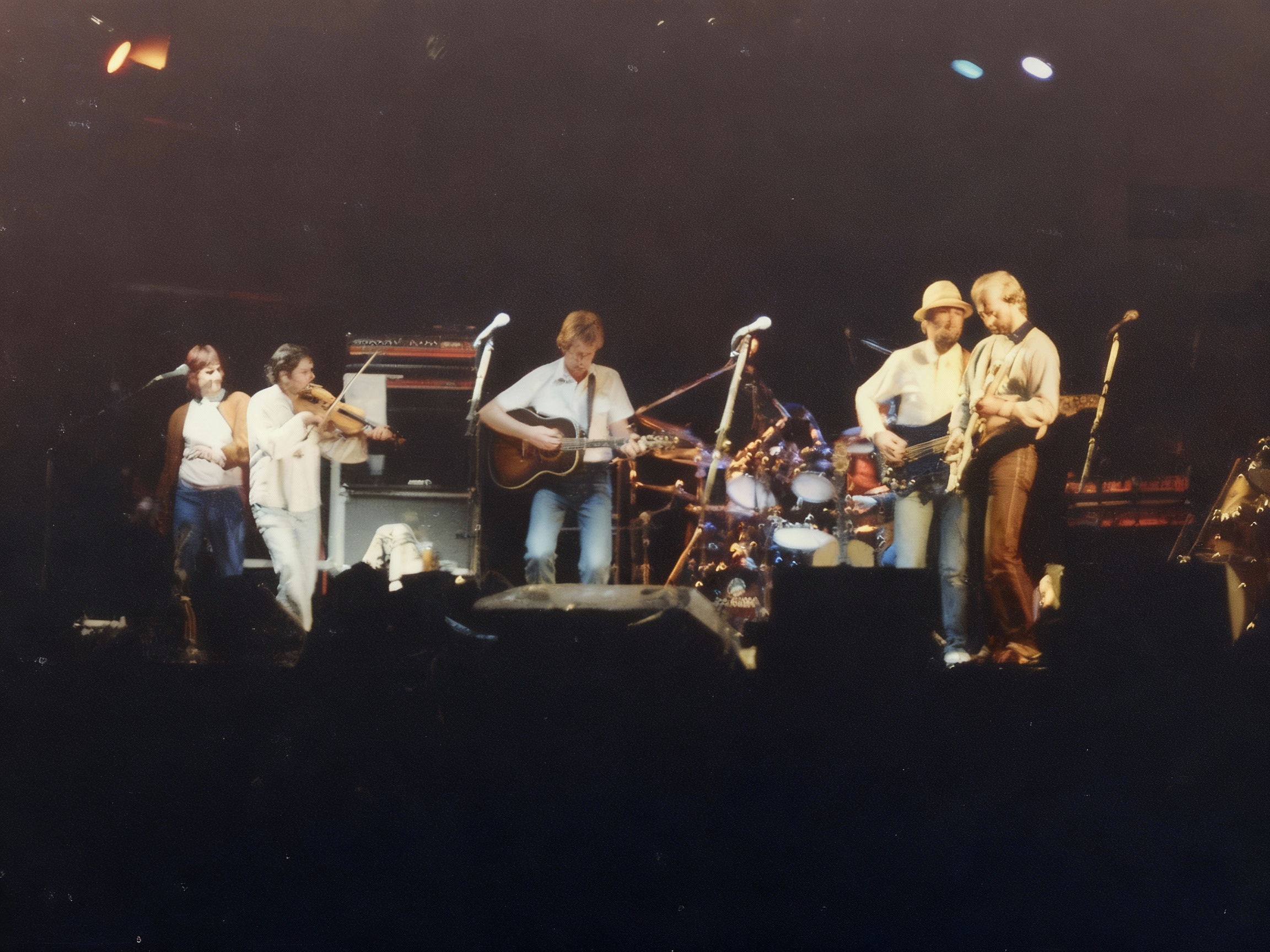 Fairport Convention, UK electric folk band on stage at the 1982 Cropredy Festival (Tony Rees photograph). L-R: Linda Thompson (guest), Dave Swarbrick, Trevor Lucas, obscured drummer, Dave Pegg, Jerry Donahue.